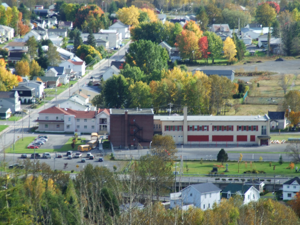 Sayabec sainte-marie School